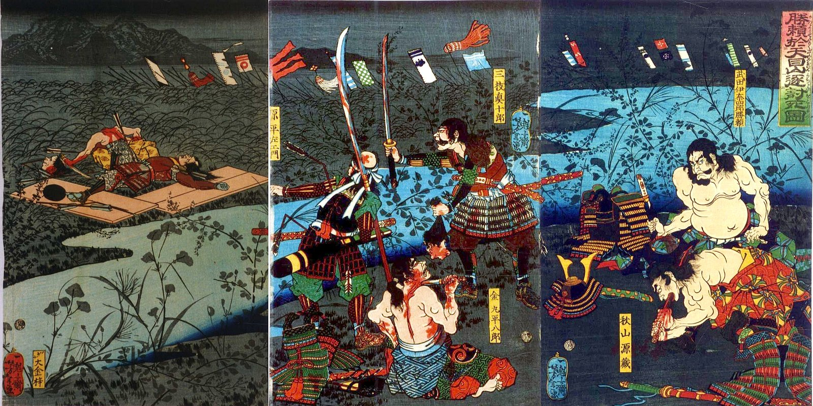 An ukiyo-e of Takeda Katsuyori died in the Battle of Temmokuzan.